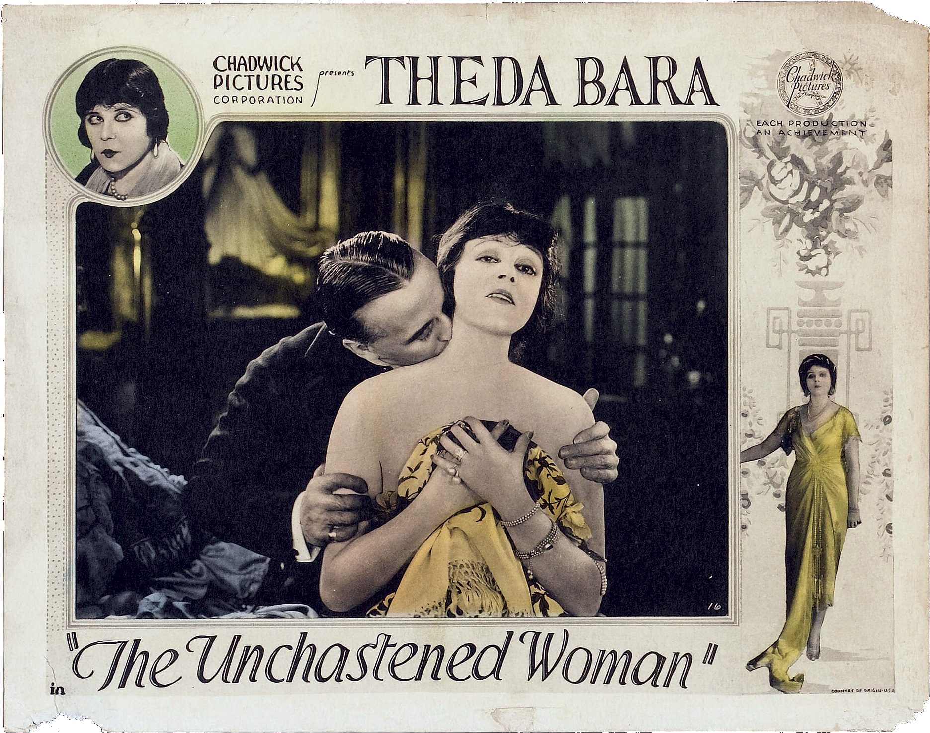 Lobby card for the American drama film The Unchastened Woman (1925).